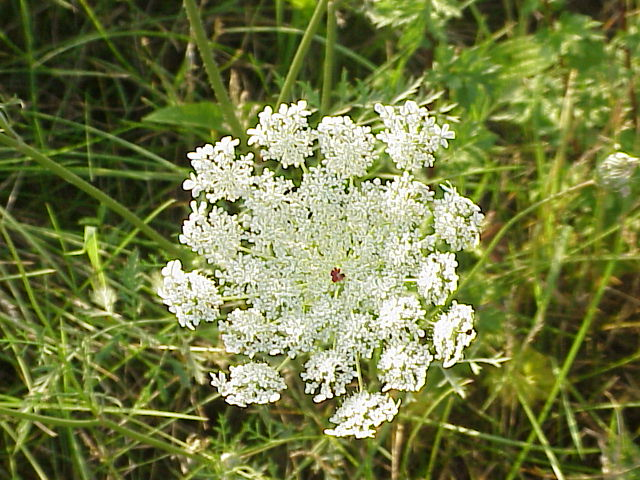 Species: Daucus carota Family: Apiaceae Image No. 1